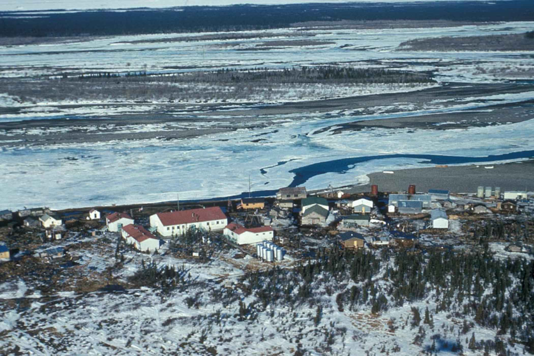 Image title: Noatak village on the Noatak river Image from Public domain images website